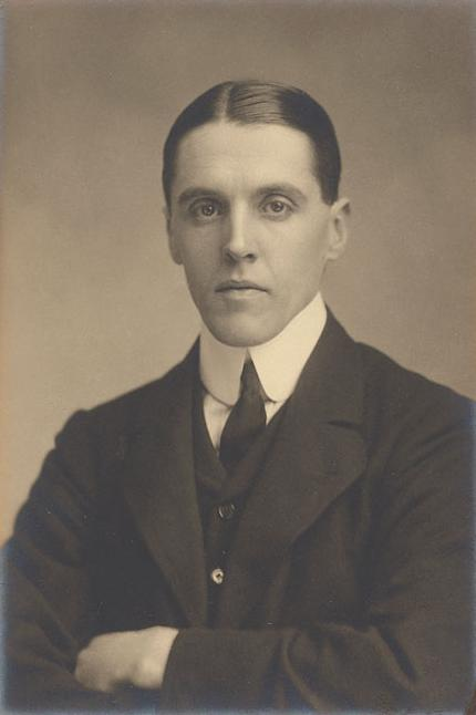 F. E. Smith, 1st Earl of Birkenhead (1872-1930)